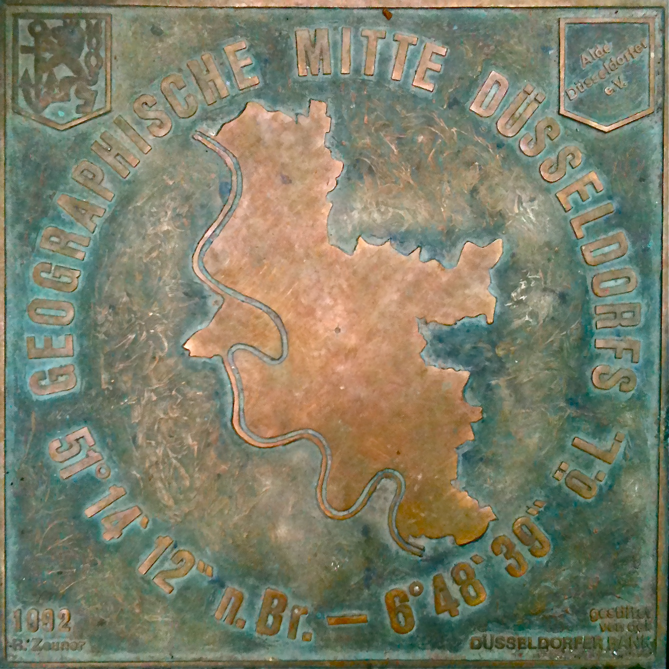 Sign in the pavement at the "Hans-Sachs-Straße" (Düsseldorf, Germany), made of bronze. The geographic center of Düsseldorf, Germany. Maybe the inscription of the plaque is wrong, because the correct location (verified with GPS-Receiver and Google) is different. --Pitlane02 (talk) 17:04, 20 February 2010 (UTC)